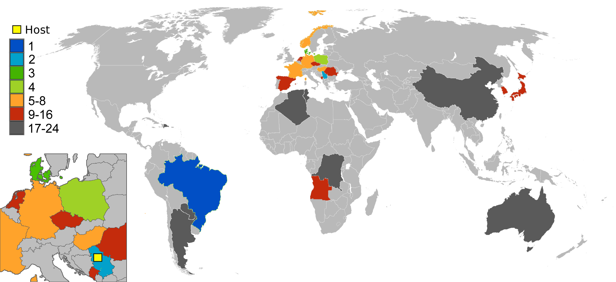 Map showing result of 2013 handball world championship for women in Serbia